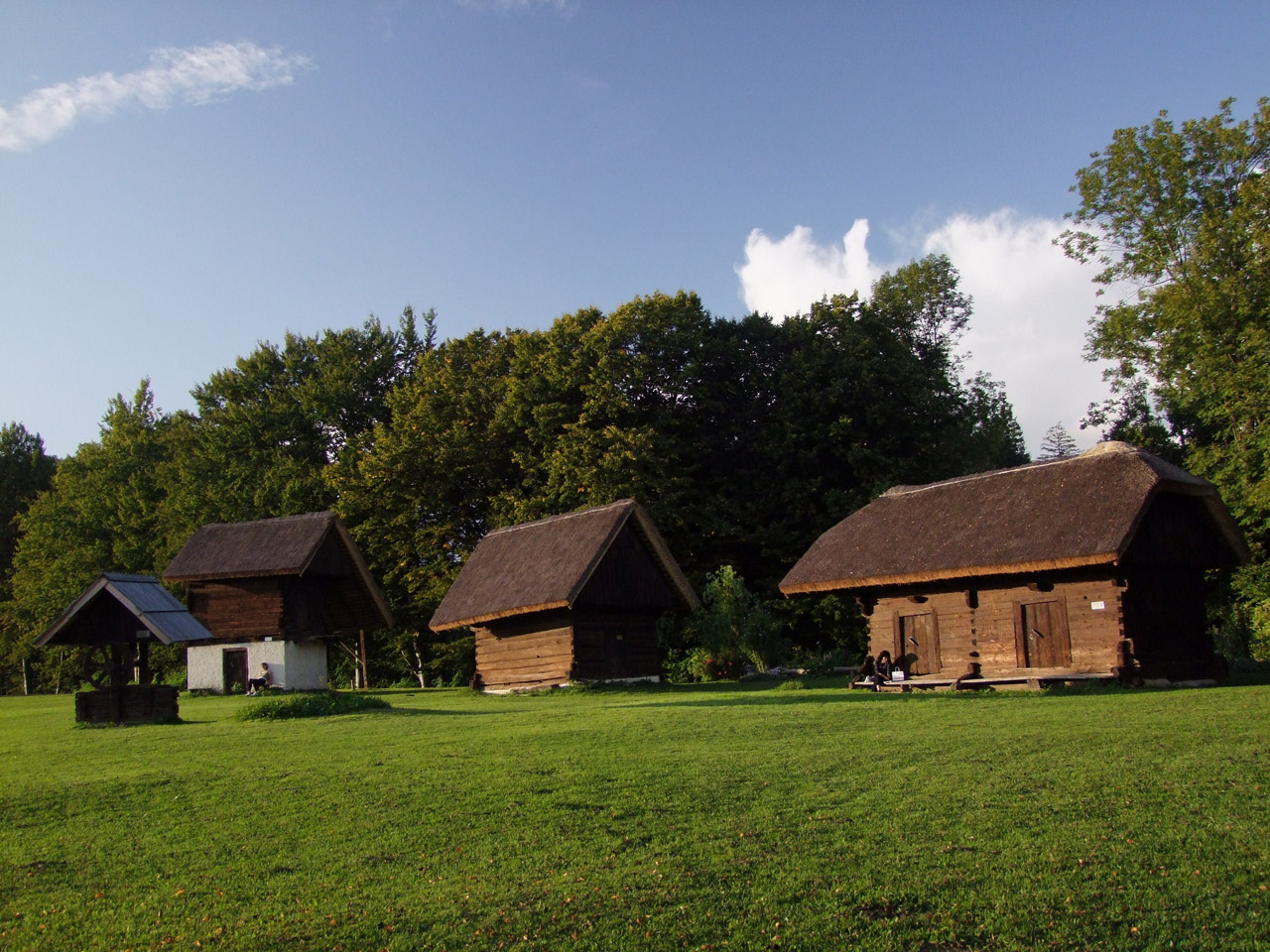 permanent exhibition of the Kamnik intermunicipality open air museum